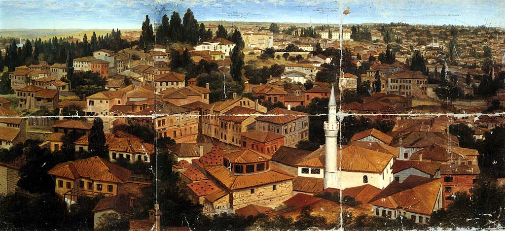 Preliminary canvas for the Panorama of Constantinople detail